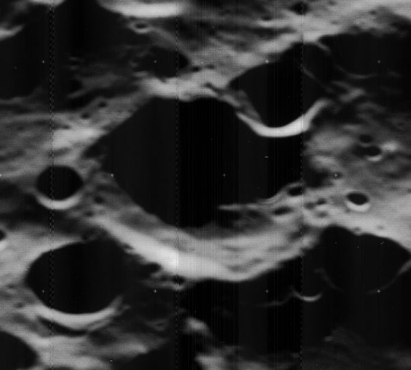 Oblique view of Murakami, on the far side of the moon, facing west.